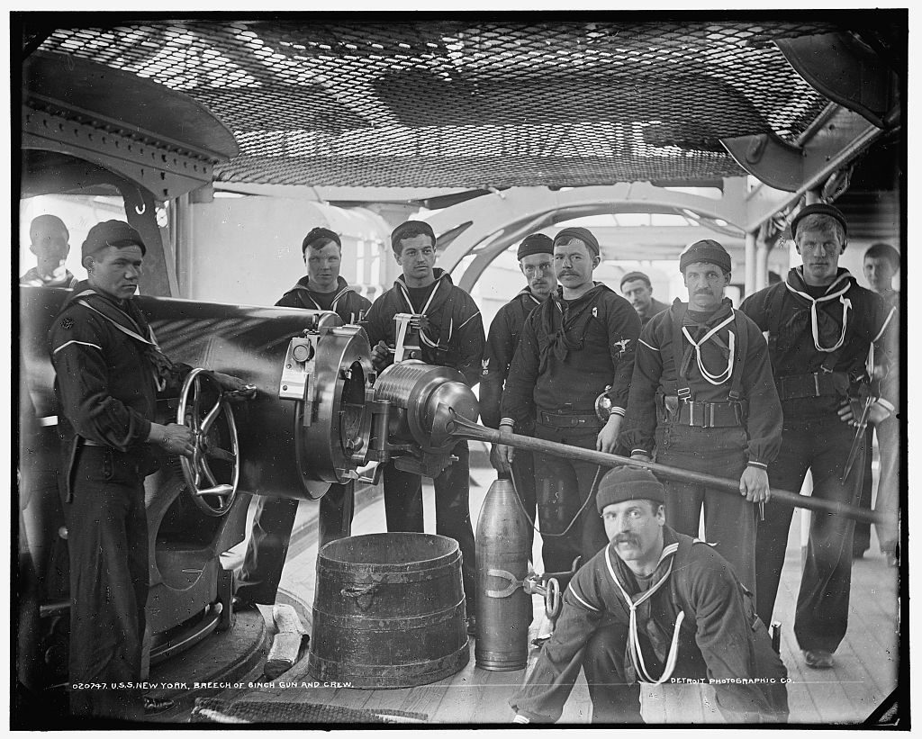 Photograph of U.S.S. New York, breech of 8 inch gun and crew.